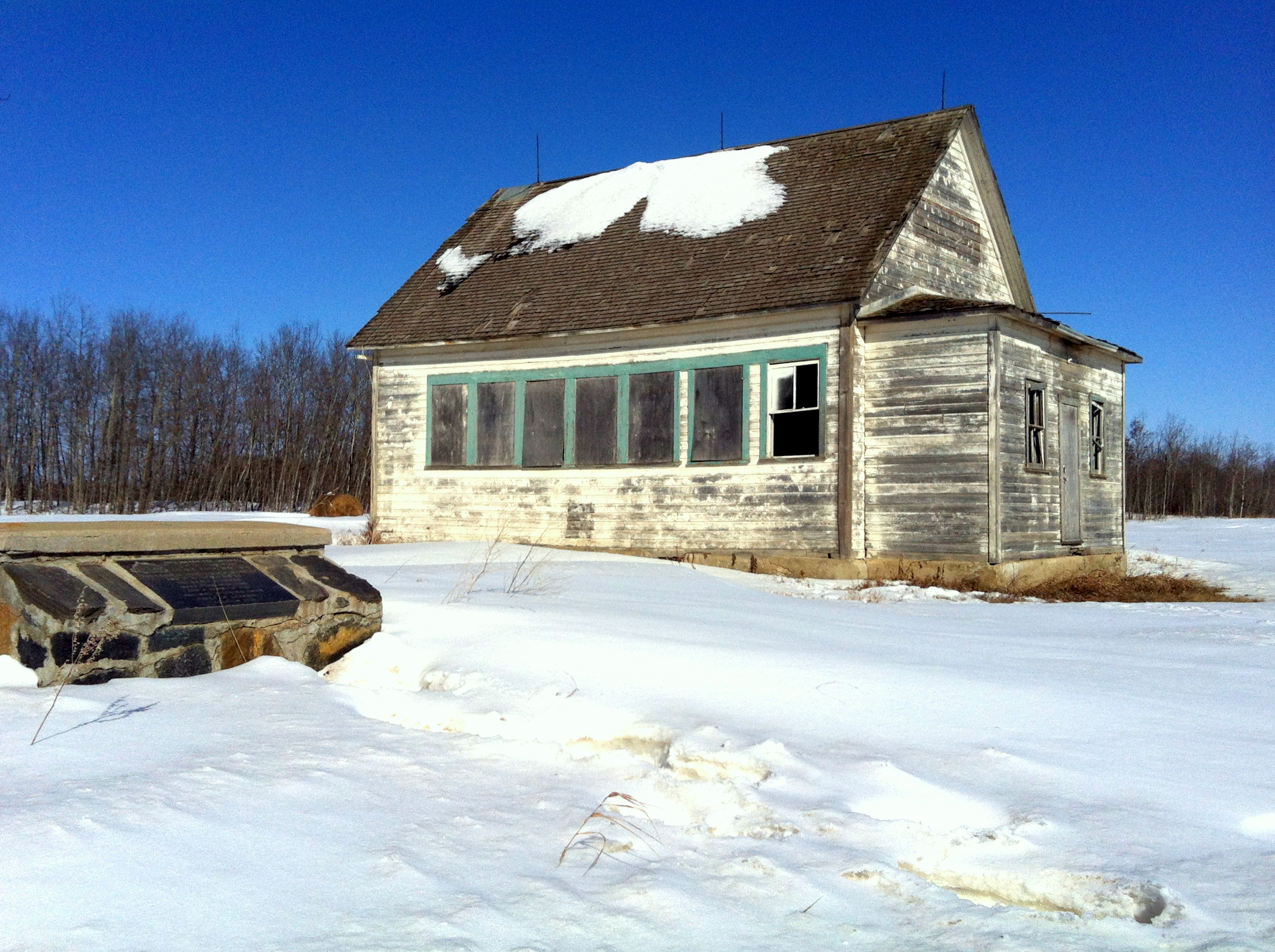 The one room school from Dobrowody School District No. 2637 taken winter 2013.